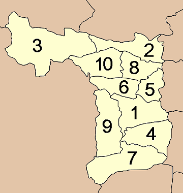 Map of Suphanburi province, Thailand, showing the districts (Amphoe) Muaeng Suphan Buri Doem Bang Nang Buat Dan Chang Bang Pla Ma Si Prachan Don Chedi Song Phi Nong Sam Chuk U Thong Nong Ya Sai